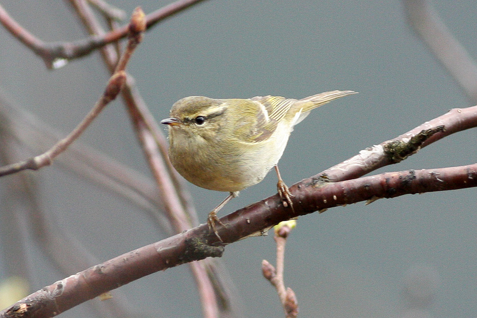 Hume's Leaf-warbler (Phylloscopus humei) Taibai Shan, Shaanxi